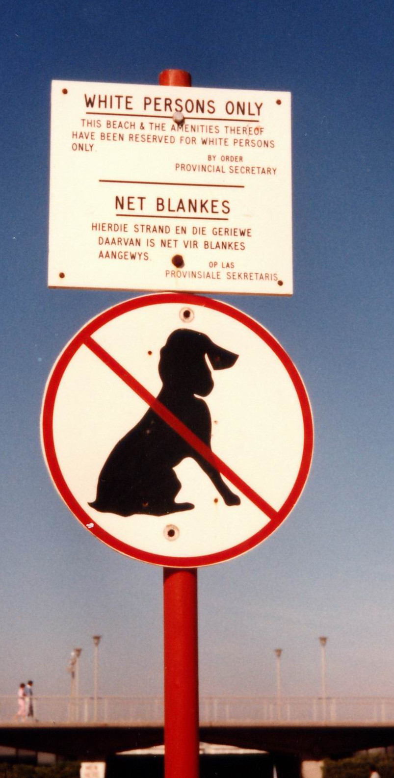 Signs on a beach in Muizenberg, Cape Town, South Africa. The top sign is in English and Afrikaans; the English version states: "WHITE PERSONS ONLY This beach & the amenities thereof have been reserved for white persons only. By order, Provincial Secretary" The bottom sign indicates that dogs are not permitted on the beach.